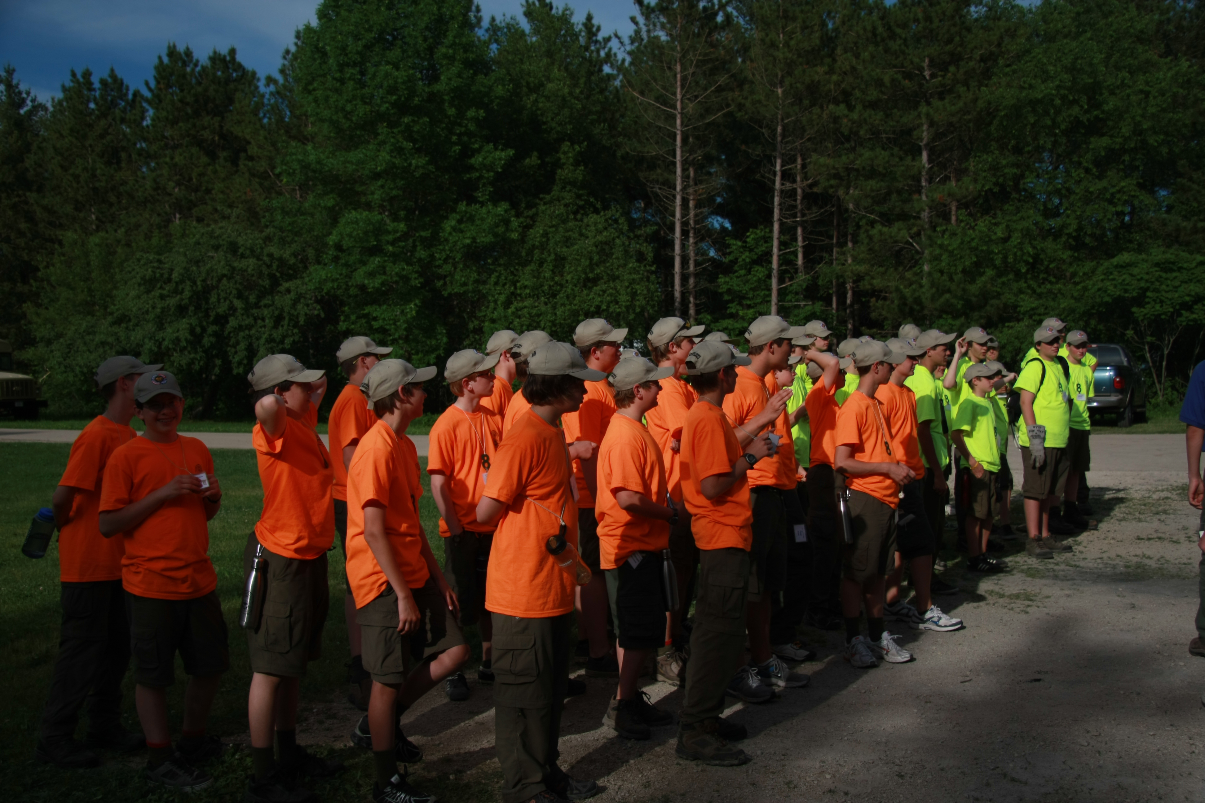 NYLT Teams Gather